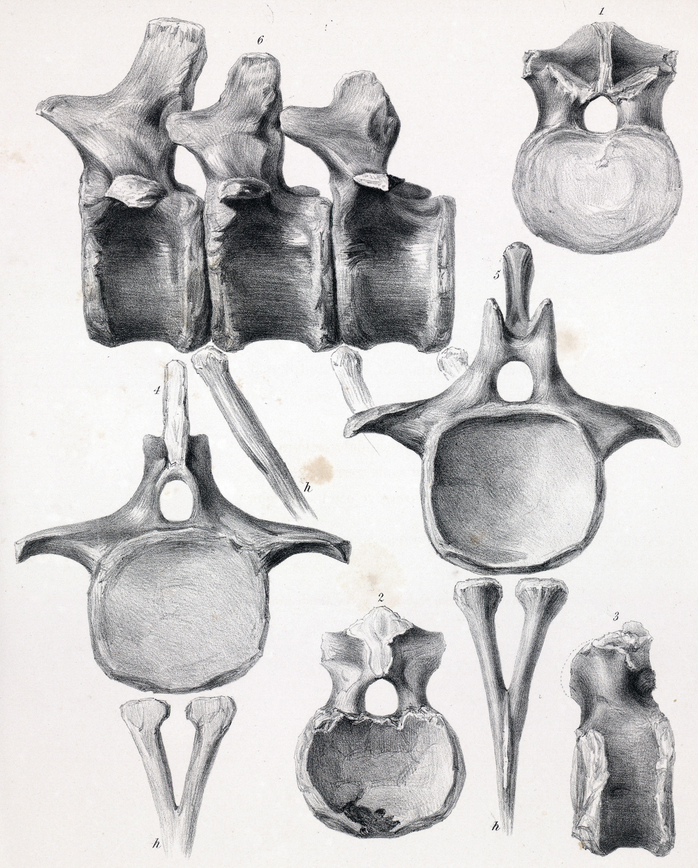 Fig. 1. Anterior articular surface of mutilated dorsal vertebra. Fig. 2. Posterior articular surface of the same vertebra. Fig. 3. Side view of the same vertebra. Fig. 4. Anterior surface of entire caudal vertebra. Fig. 5. Posterior surface of the same vertebra. Fig. 6. Side view of three consecutive caudal vertebræ. All the vertebræ are of the Cetiosaurus brevis, and are figured one fourth the natural size.